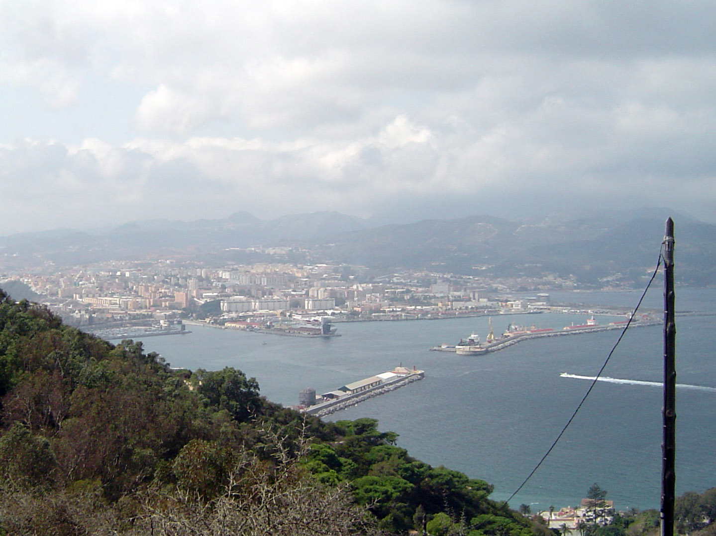 Ceuta port from Hacho mountain